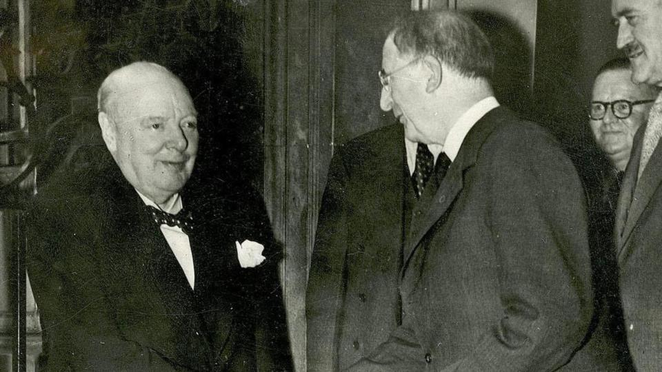 Churchill and Irish Prime Minister Eamon De Valera in 1953